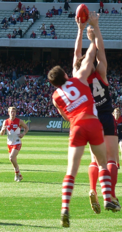 Jeff White of the Melbourne Demons attempts a mark while the Sydney Swans Darren Jolly tries to spoil.